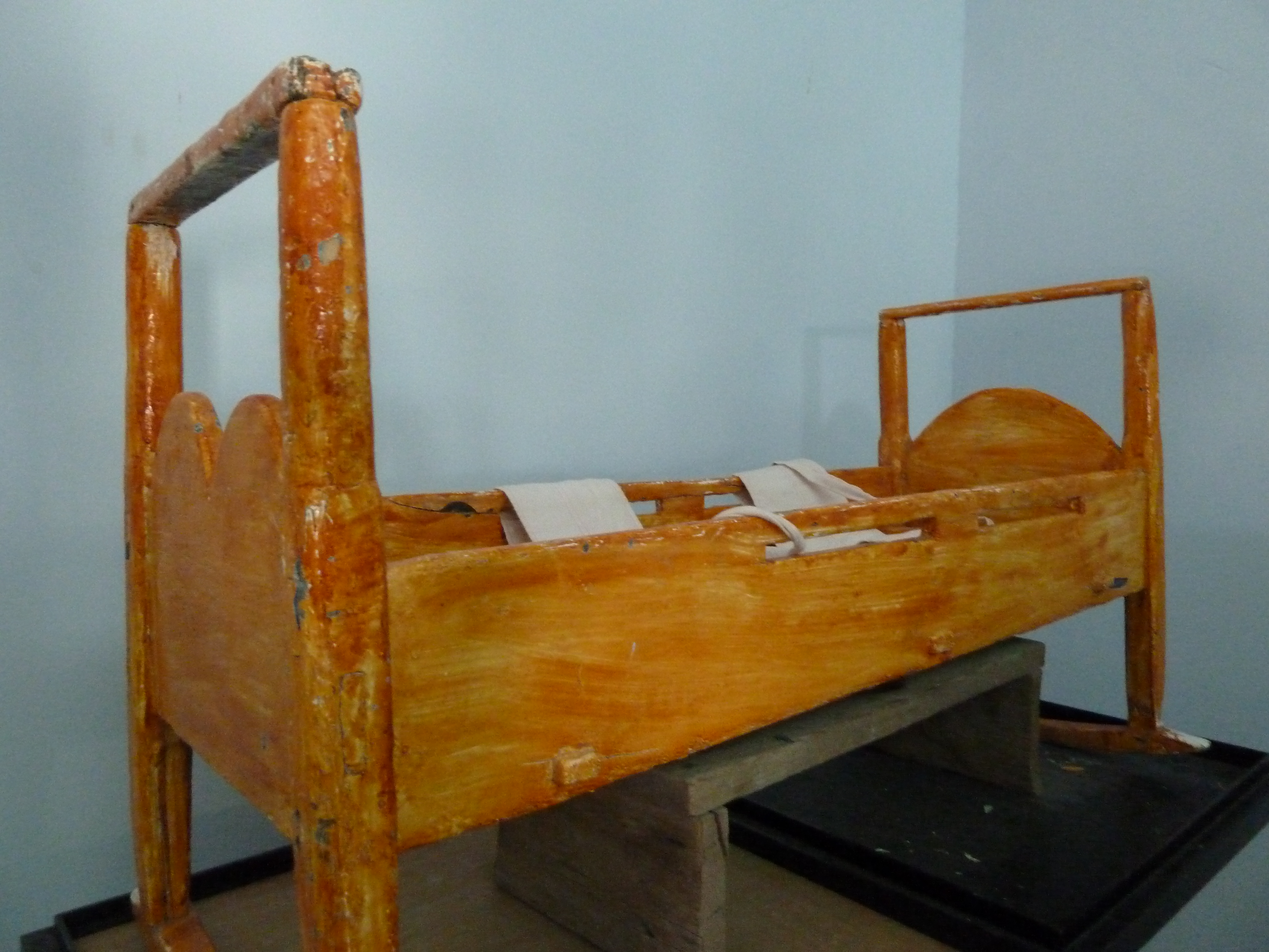 Exhibits at the Circassian Heritage Center in Kfar-Kama, Kfar Kama, the Lower Galilee, Israel This image was taken as part of the Elef Millim project trip to the Circassian town of Kfar Kama in the Lower Galilee, which was held on Friday, 22nd June 2012. To view all images uploaded as part of the Elef Millim Project